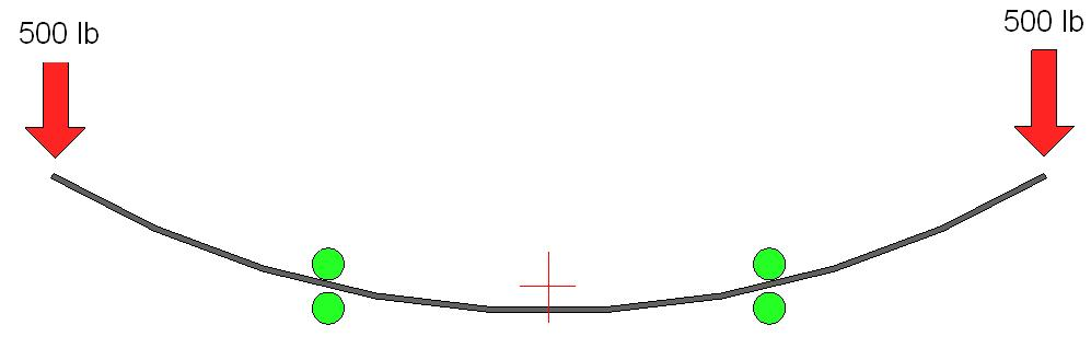 illustration of the flex of a Corvette leaf spring, both sides in droop